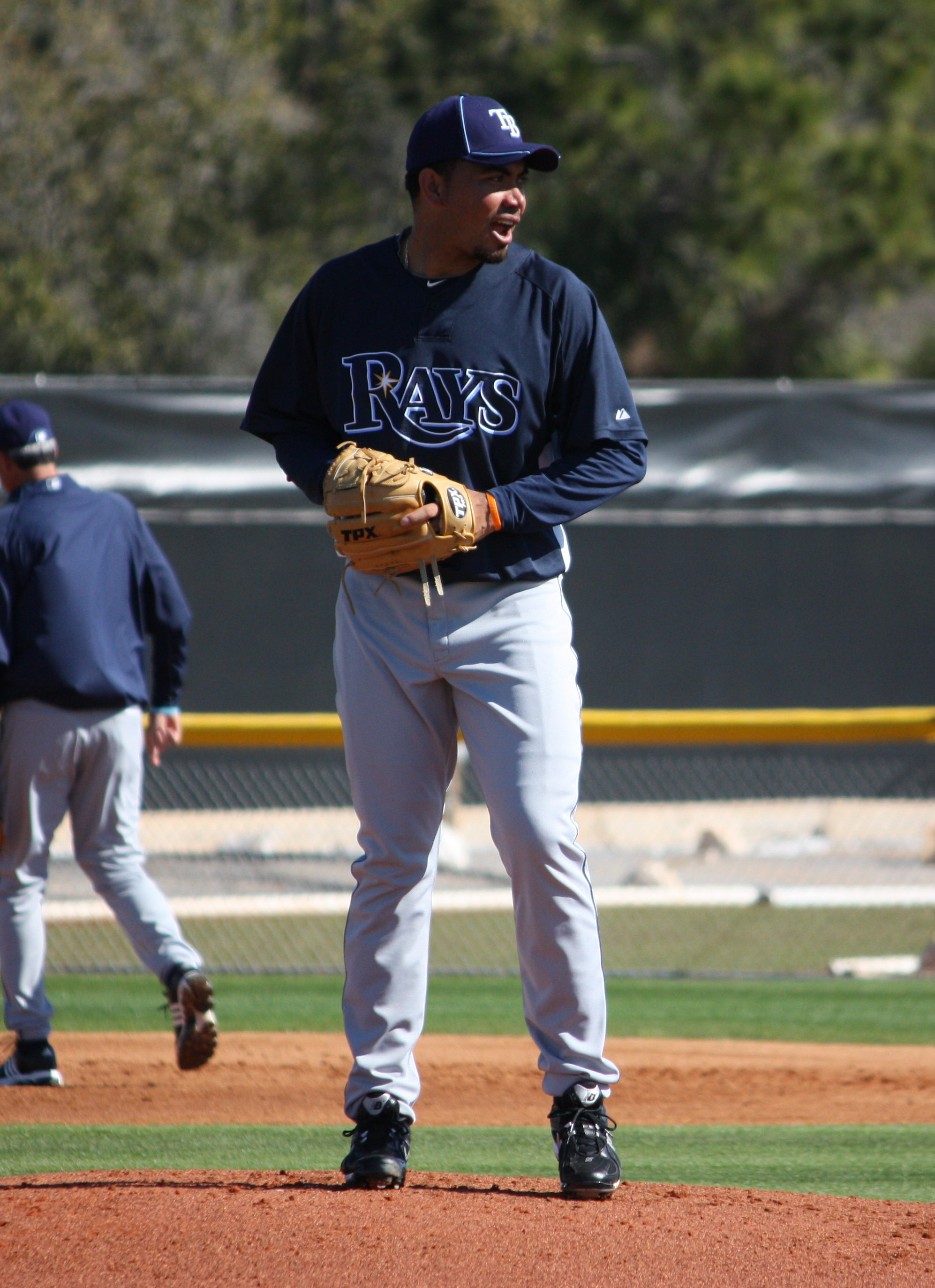 Joaquín Benoit of the Tampa Bay Rays doing first base drills during spring training workouts at Charlotte Sports Park in Port Charlotte on February 21, 2010.